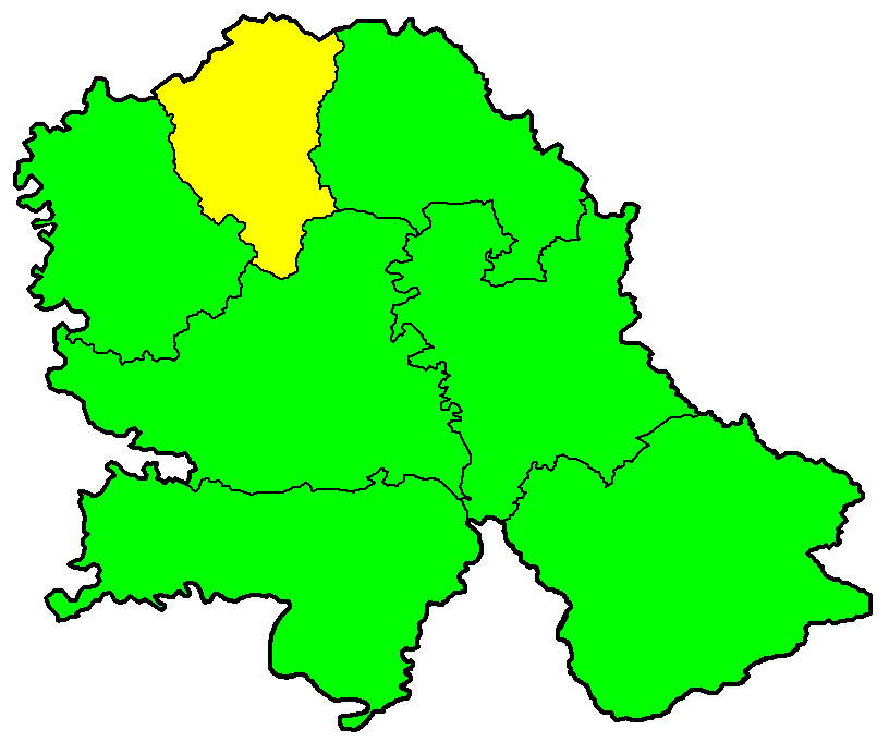 Map of North Backa